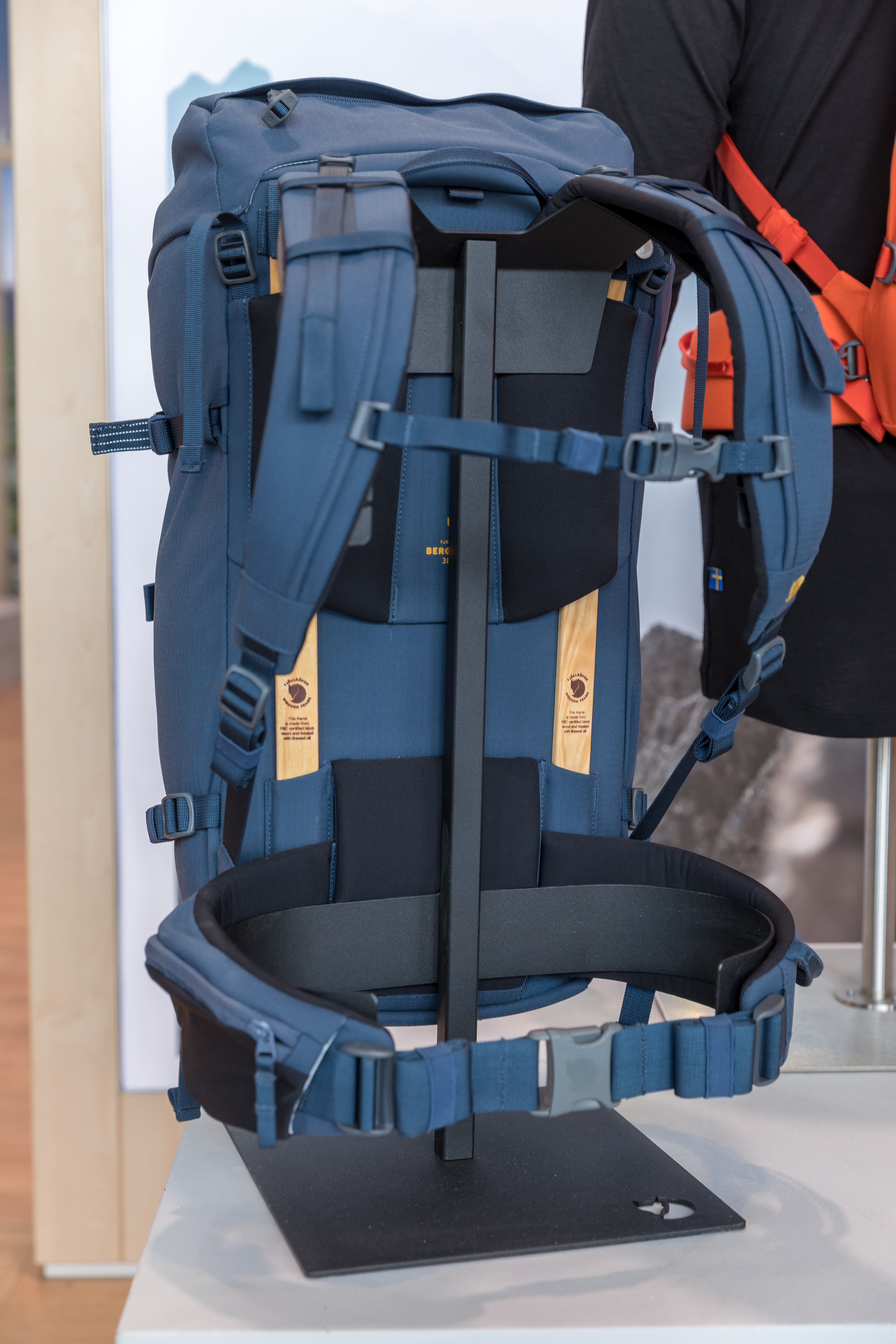 OutDoor 2018